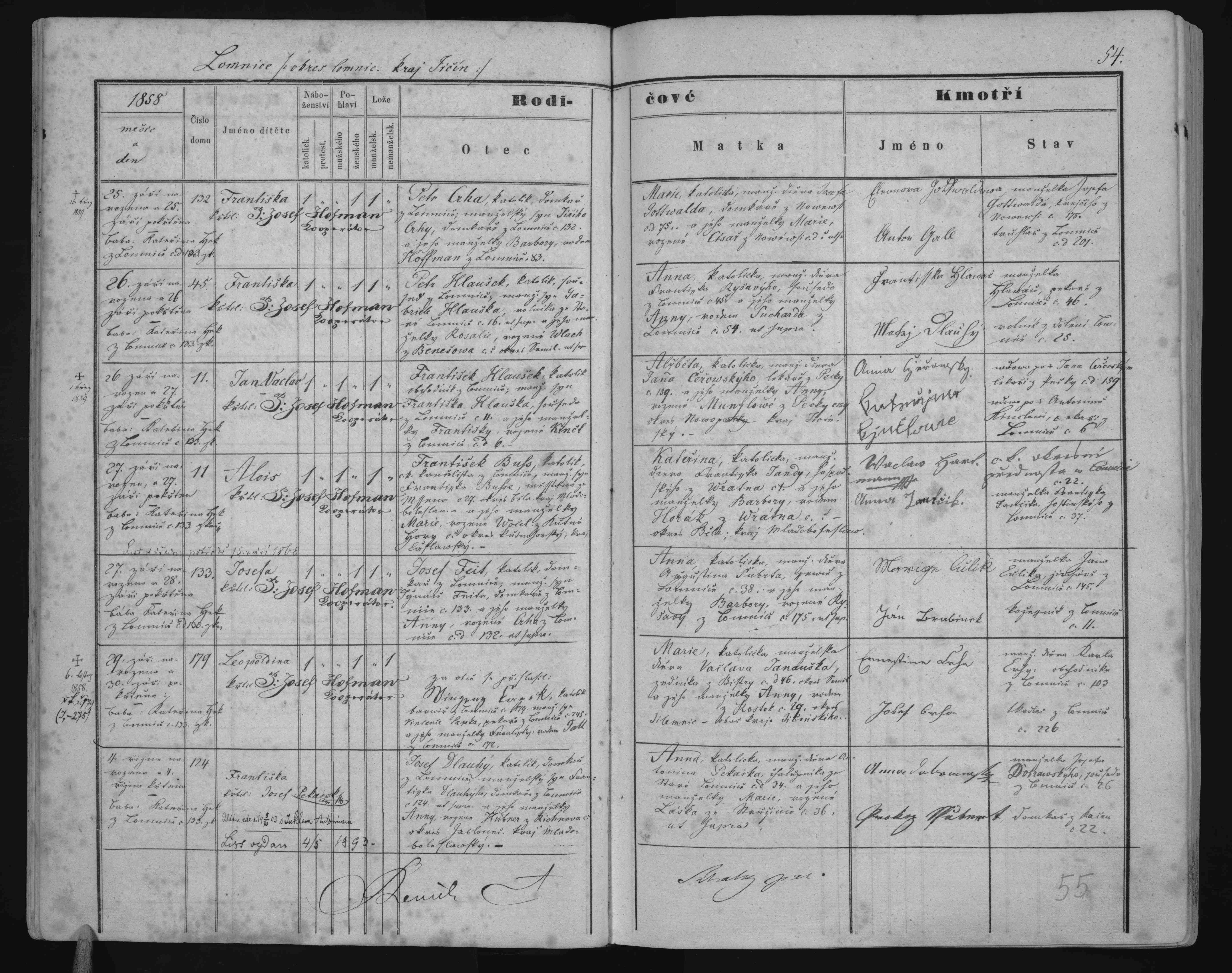 Page of a parish birth record of Lomnice nad Popelkou, Czech Republic, recording the birth of teacher and writer Alois Buss (1858-1926).